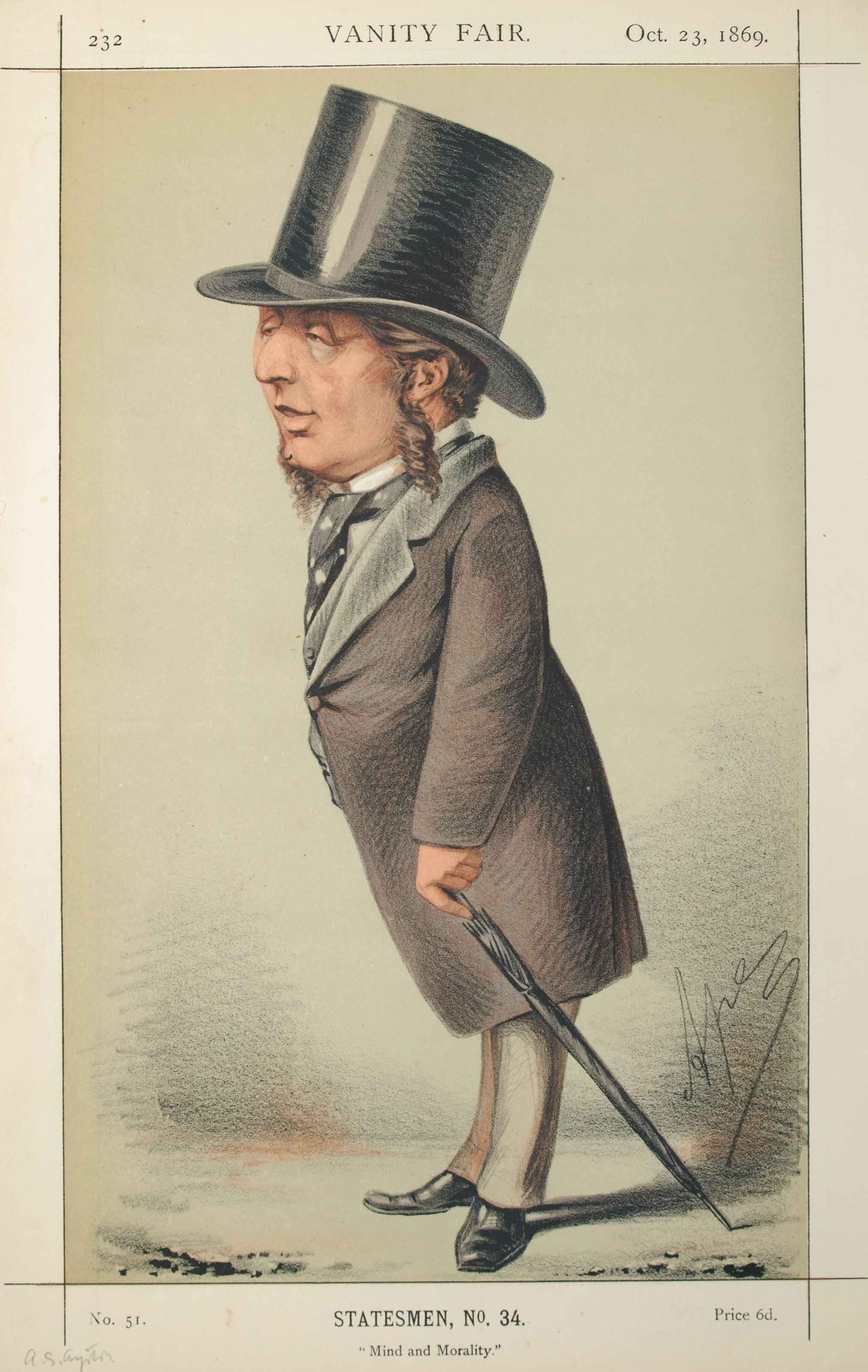 Statesmen No.34: Caricature of Mr AS Ayrton MP. Caption reads: "Mind and Morality."